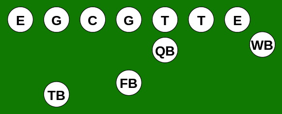 Diagram of the Single Wing formation formerly used in American gridiron football (cropped)